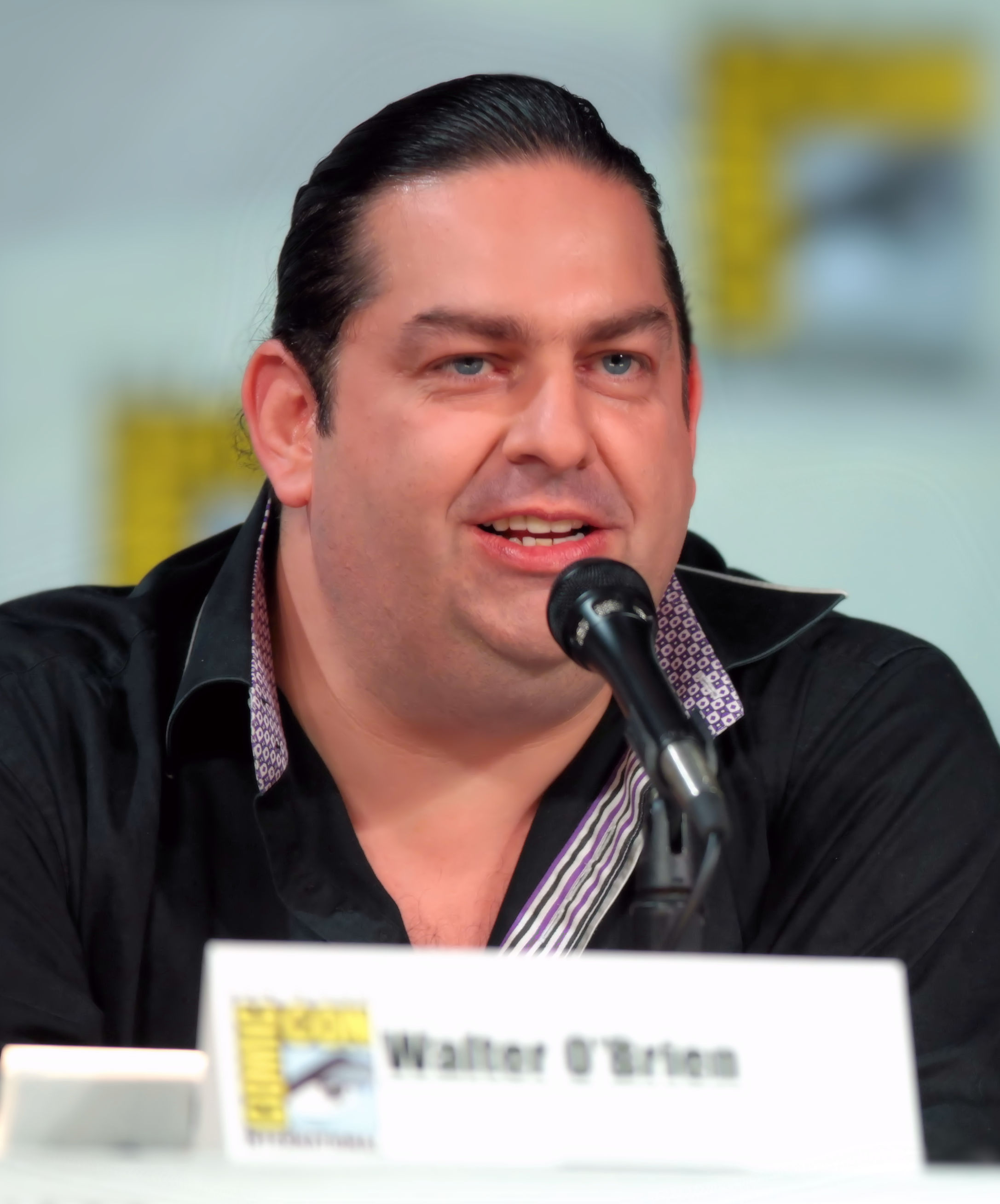 Walter O'Brien speaking at the 2014 San Diego Comic Con International, for "Scorpion", at the San Diego Convention Center in San Diego, California.